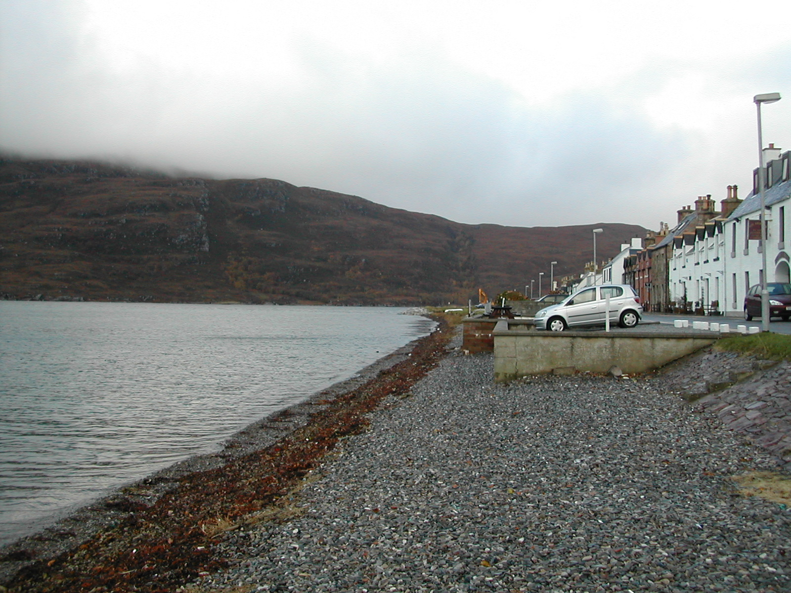 Nom du fichier : DSCN2526.JPG Taille du fichier : 608.4 Ko (622971 octets) Date : 2003/10/27 10:24:38 Taille de l'image : 1600 x 1200 pixels Résolution : 300 x 300 ppp Profondeur en bits : 8 bits/canal Attribut de protection : Désactivé Attribut Masqué : Désactivé ID de l'appareil : N/A Appareil : E775 Mode de qualité : FINE Mode de mesure : Multizones Mode d'exposition : Programme Auto Speed Light : Non Distance Focale : 5.8 mm Vitesse d'obturation : 1/164.3 seconde Ouverture : F2.8 Correction d'exposition : 0 IL Balance des blancs : Auto Objectif : Intégré Mode Synchro-Flash : Premier Rideau Différence d'exposition : N/A Programme Décalable : N/A Sensibilité : Auto Renforcement de la netteté : Auto Type d'image : Couleur Mode Couleur : N/A Saturation : N/A Contrôle Saturation : N/A Compensation des tons : Normal Latitude (GPS) : N/A Longitude (GPS) : N/A Altitude (GPS) : N/A